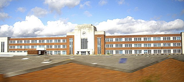 Wills of Wallsend Former cigarette factory, now converted into flats. Seen from East coast Mainline.